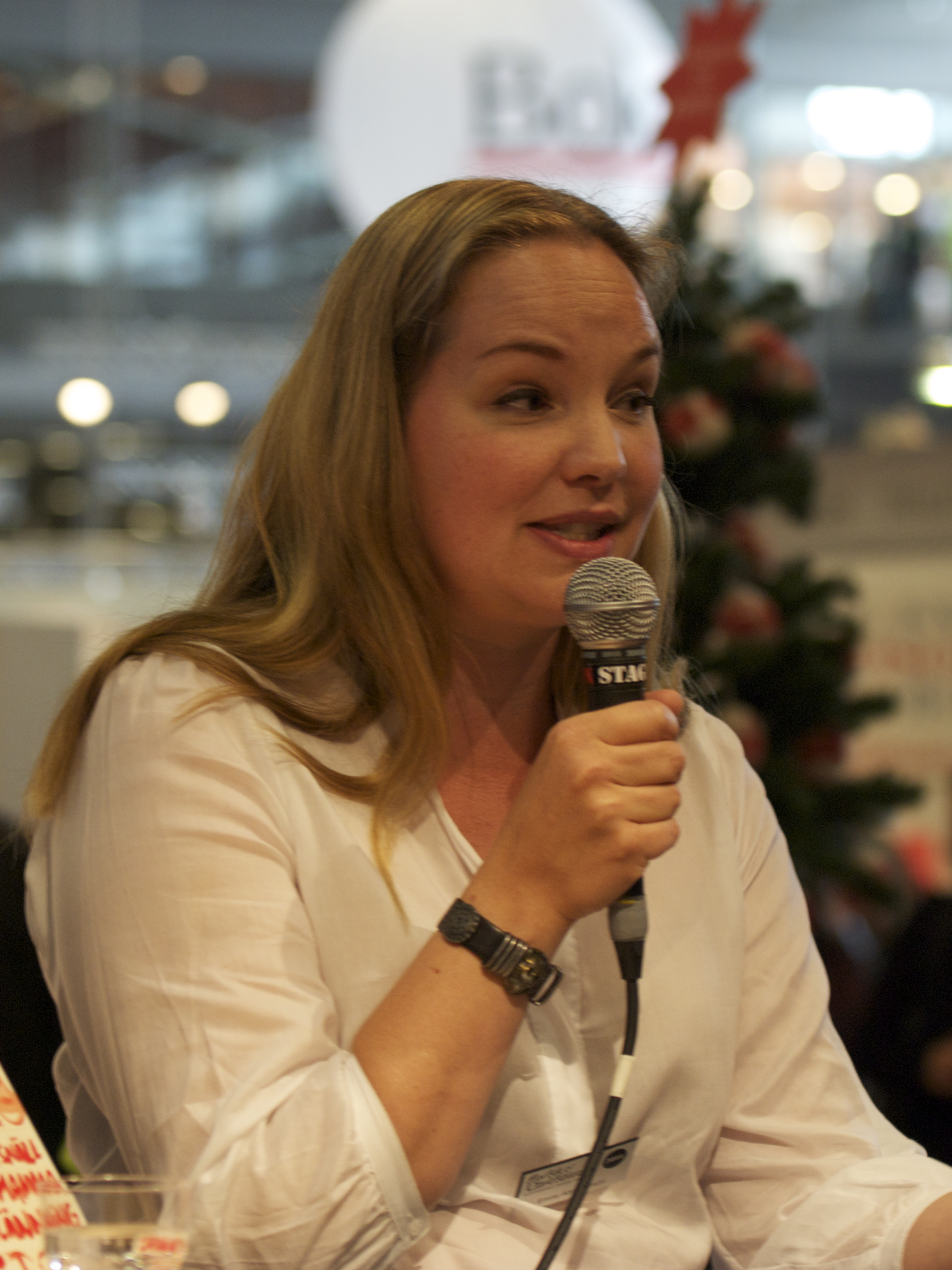 Emmy Abrahamson at Göteborg Book Fair 2011.